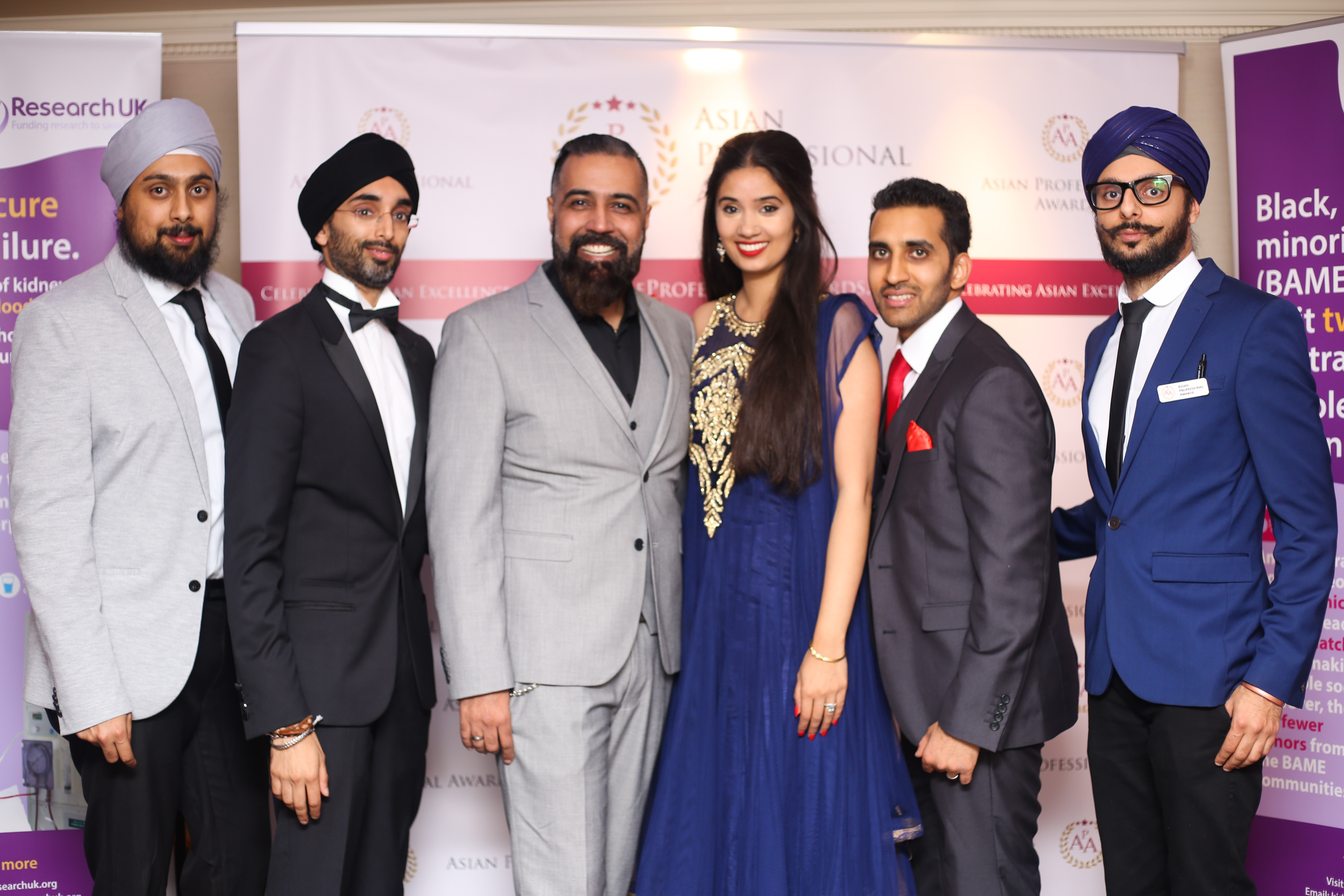 Organisers and Hosts of the Asian Professional Awards